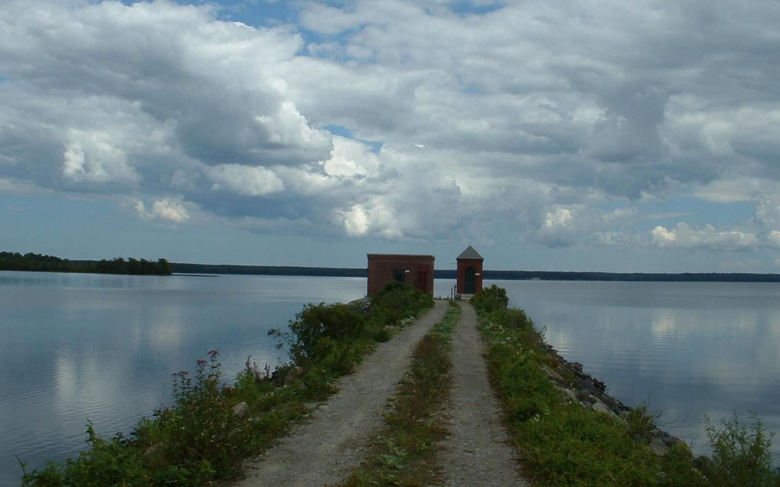 View of Assawompset Pond, Lakeville, Massachusetts.